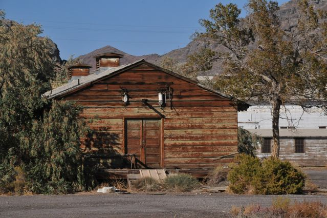 World War 2 era barracks building at Wendover air base Utah